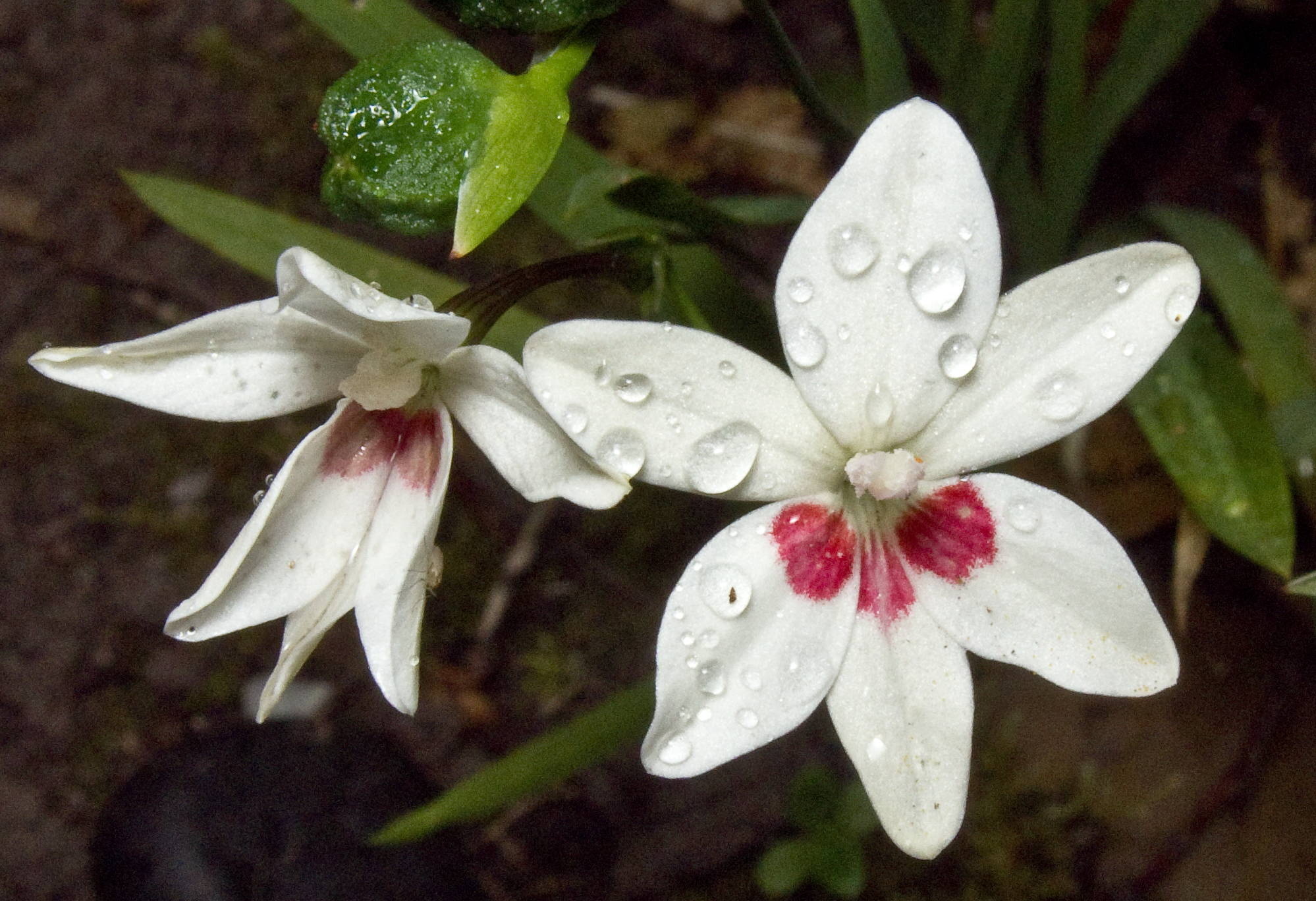 Form of Freesia laxa – white flowers with red markings on the lower three tepals, growing in cultivation in the English Midlands